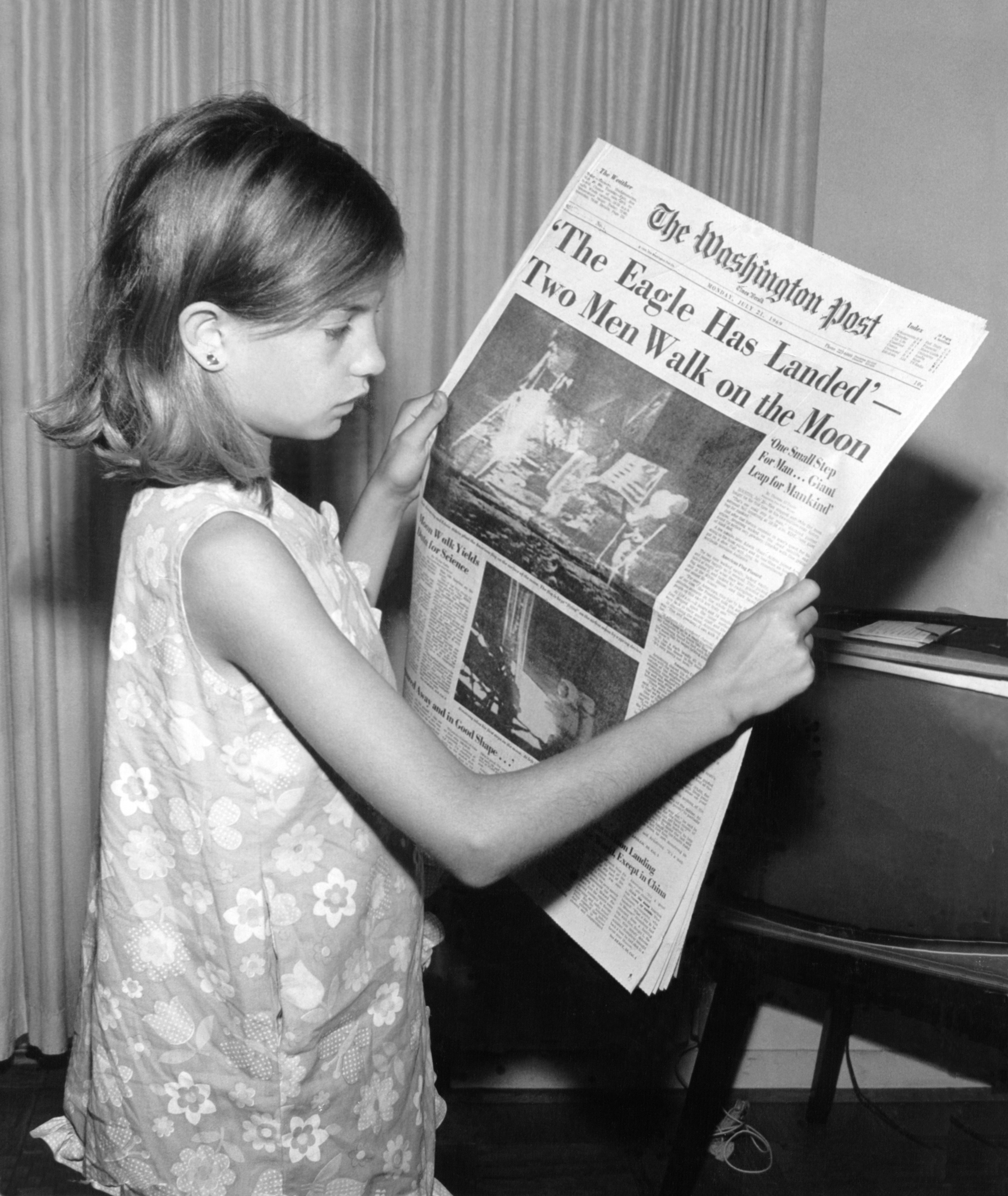 This is a picture of my mother holding The Washington Post newspaper on Monday, July 21, 1969 stating 'The Eagle Has Landed. Two Men Walk on the Moon'. The photo was taken by my grandfather." -- the original uploader